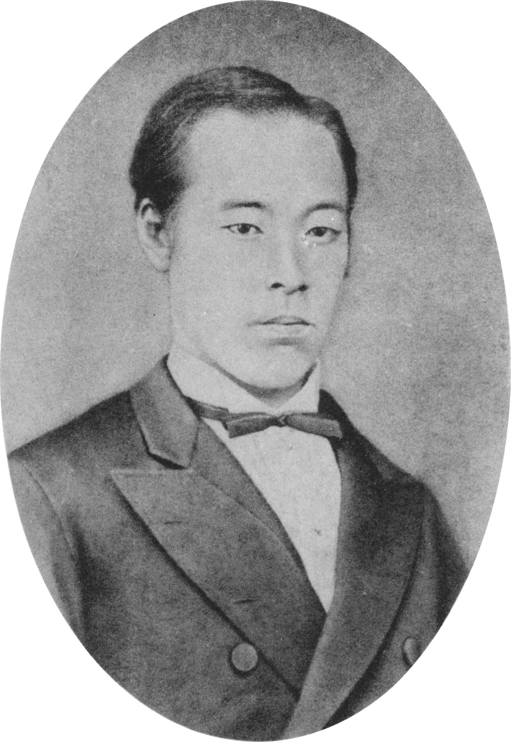 Morokuzu Nobuzumi, director of the Tokyo Normal School.